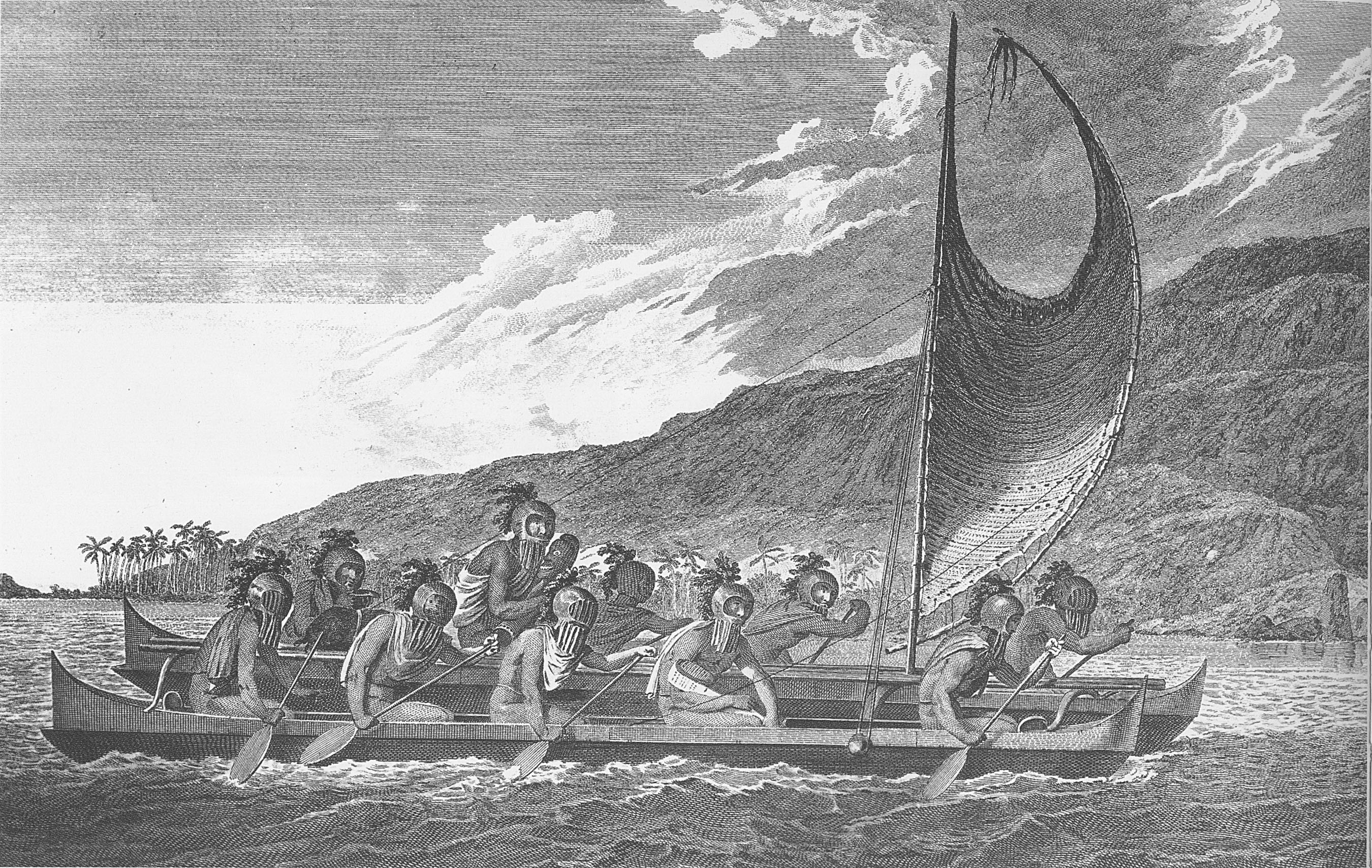 Priests traveling across Kealakekua bay for first contact rituals. Each helmet is a gourd, with foliage and tapa strip decoration. A feather surrounded akua is in the arms of the priest at the center of the engraving. It is not known what the purpose of the ritual surrounding first contact with Westerners was.